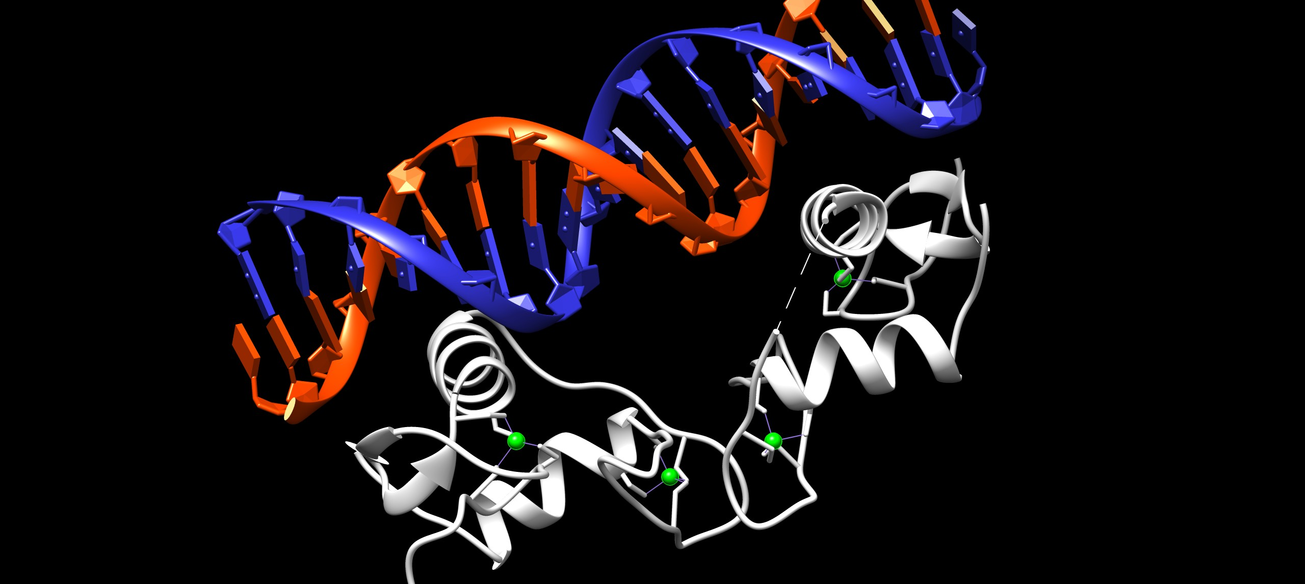 Cartoon representation of the human estrogen hormone receptor DNA Binding Domain (DBD). The estrogen receptor binds to DNA with structures known as zinc fingers. The DNA is shown in orange and blue. The DBD of the hormone receptor is shown in white and the zinc atoms are green.